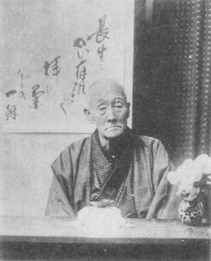 Iccho San'yu (Rakugoka).